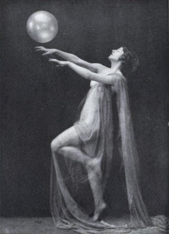 Dancer Desha Delteil, now in the Fokine Ballet, on page 13 of the April 1922 Shadowland.